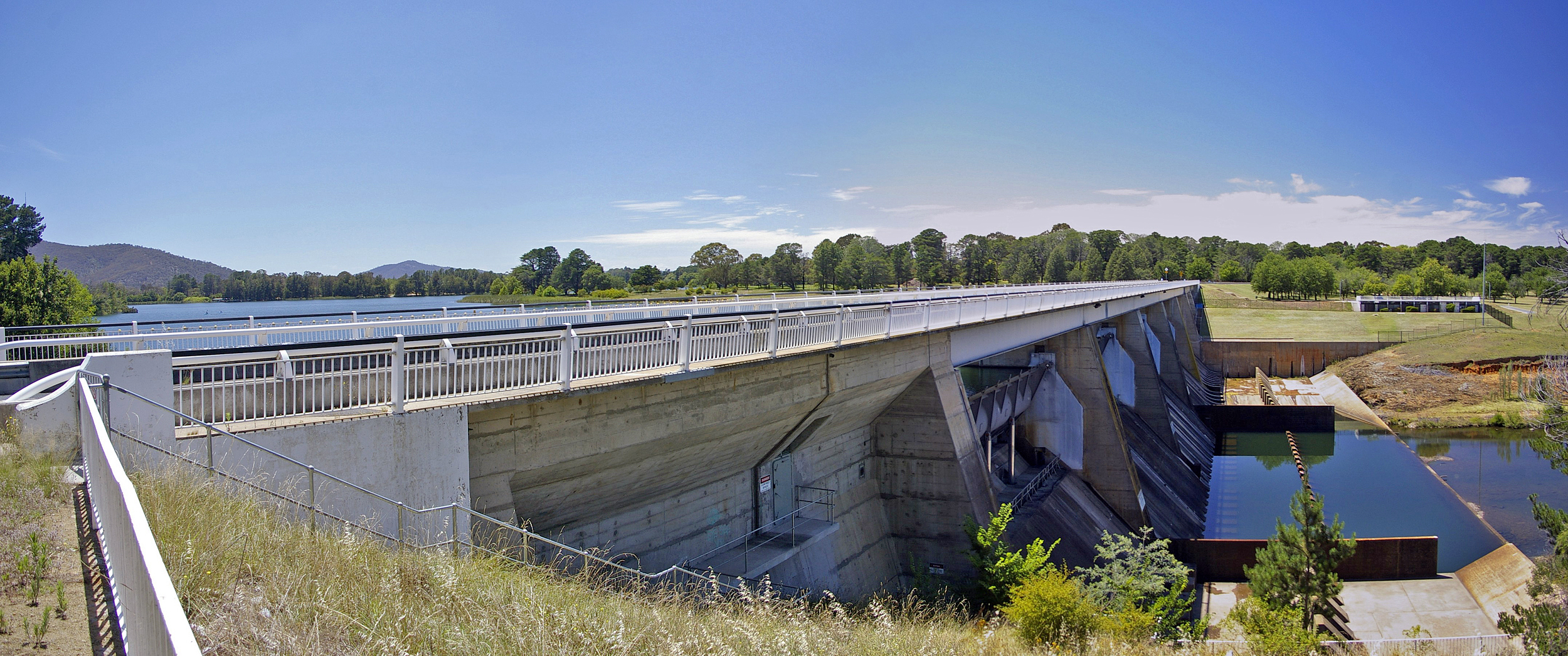 Scrivener Dam photographed near the National Zoo & Aquarium in Yarralumla, Australian Capital Territory.